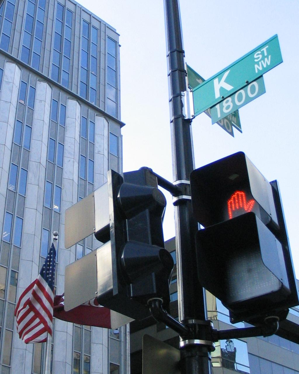 K Street NW at 19th Street in Washington D.C., part of downtown Washington's maze of high-powered lobbyists and law firms. Taken by User:Erifnam on Feb. 23, 2005.